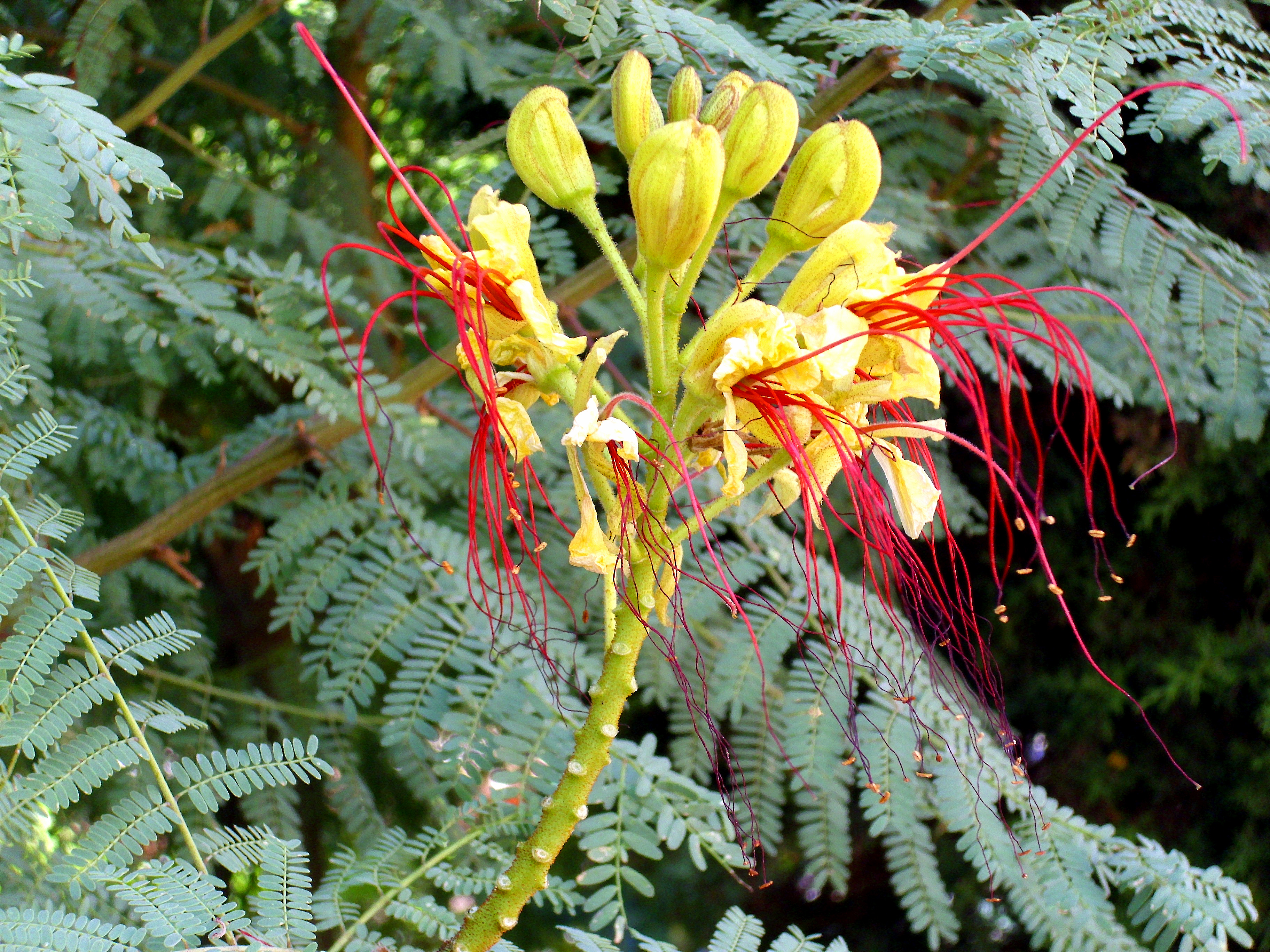 Caesalpinia gilliesii flowers, Torrelamata, Torrevieja, Alicante, Spain